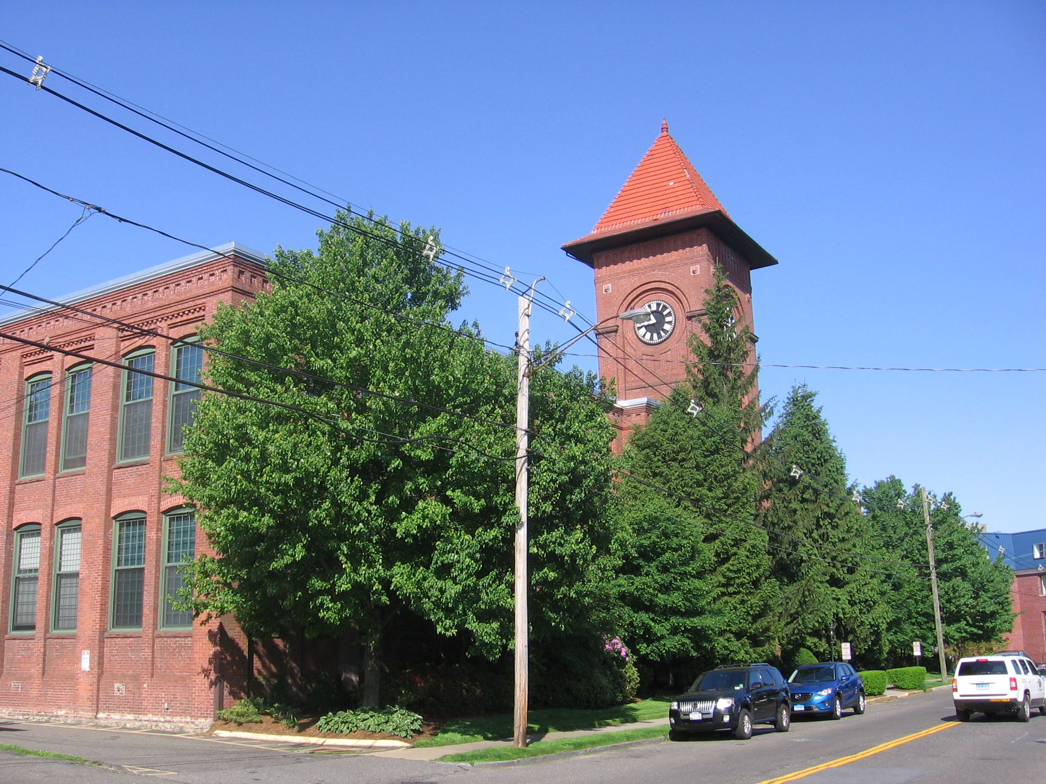 The Joseph Loth Company Building at 25 Grand Street, Norwalk, Connecticut. The building is now also known as "Clocktower Close" - an apartment building.